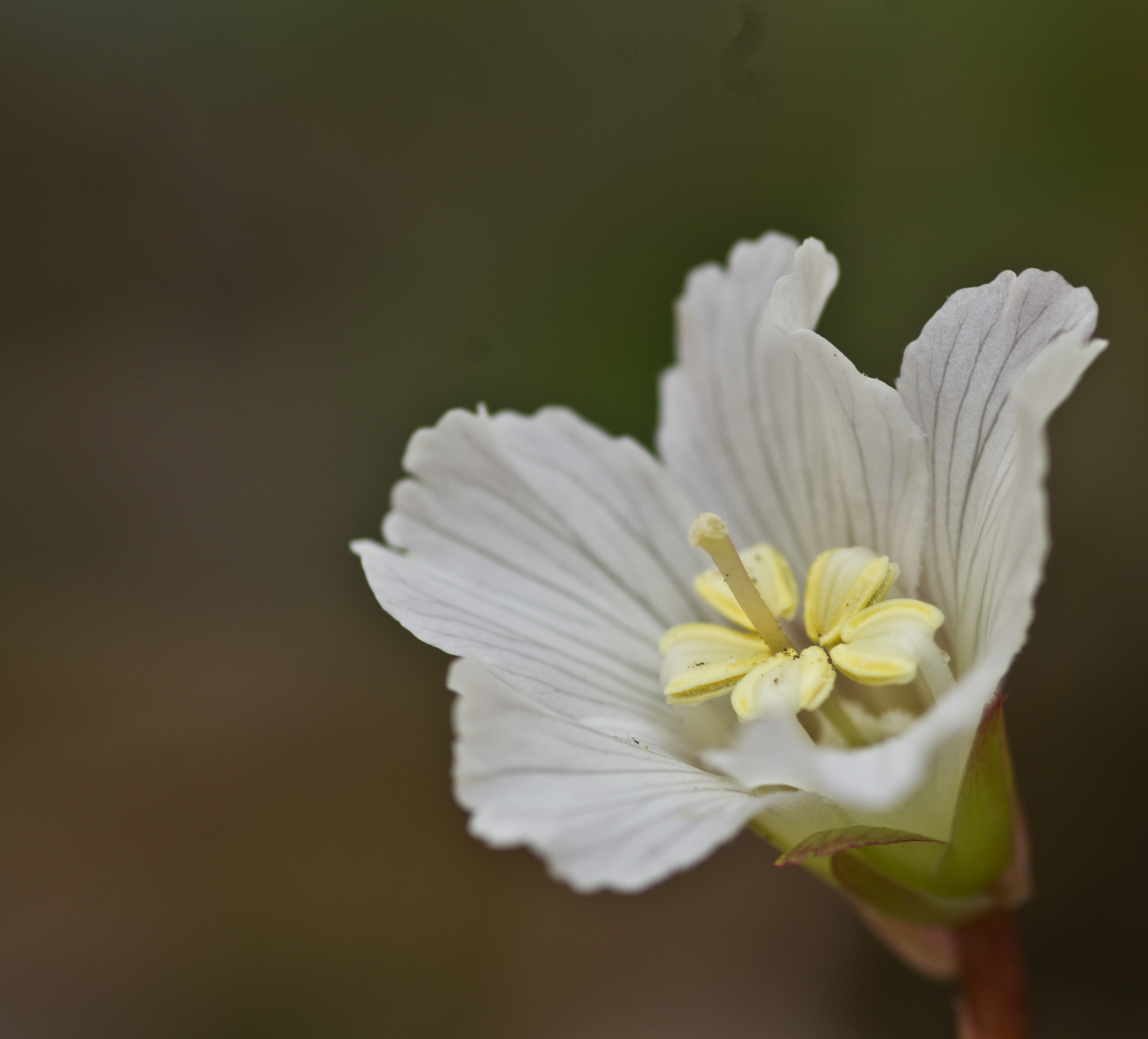 Oconee Bell (Shortia galacifolia var. galacifolia) blossom ~2cm in diameter. Photographed at the Highlands Biological Station in Macon County, North Carolina.